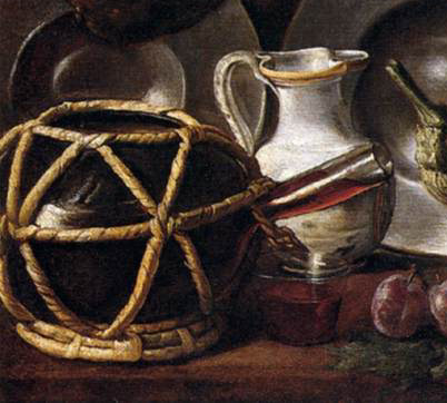 Fiasco still life (detail)